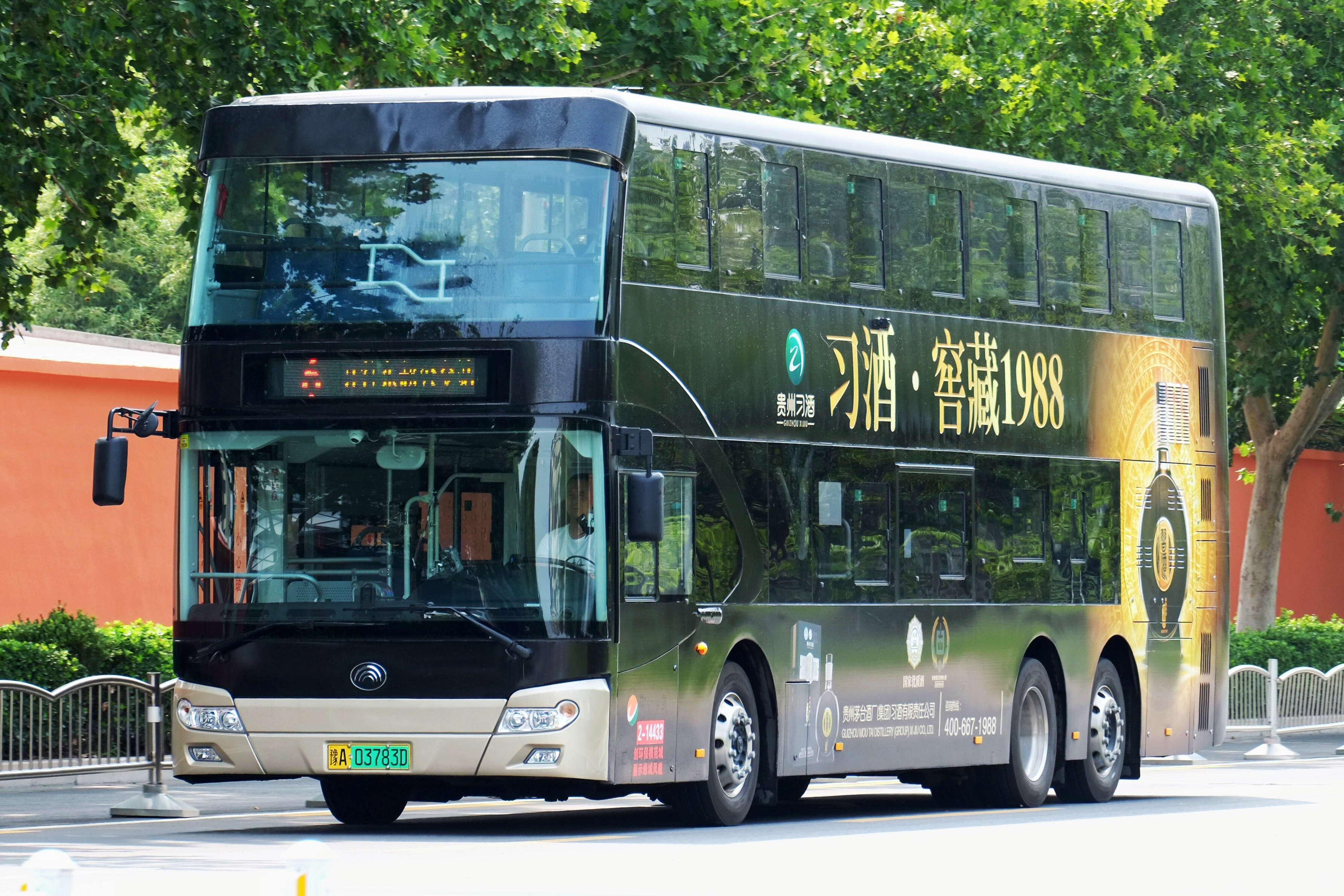 Yutong E12DD (2-14433) on ZZB Route 6